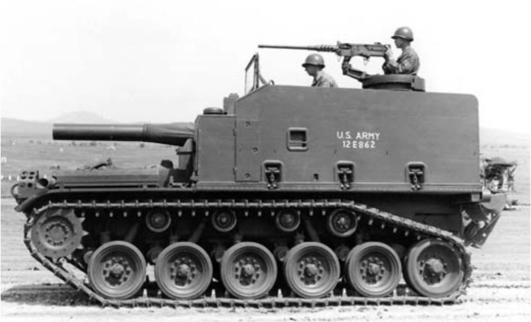 M44 155mm self-propelled howitzer.